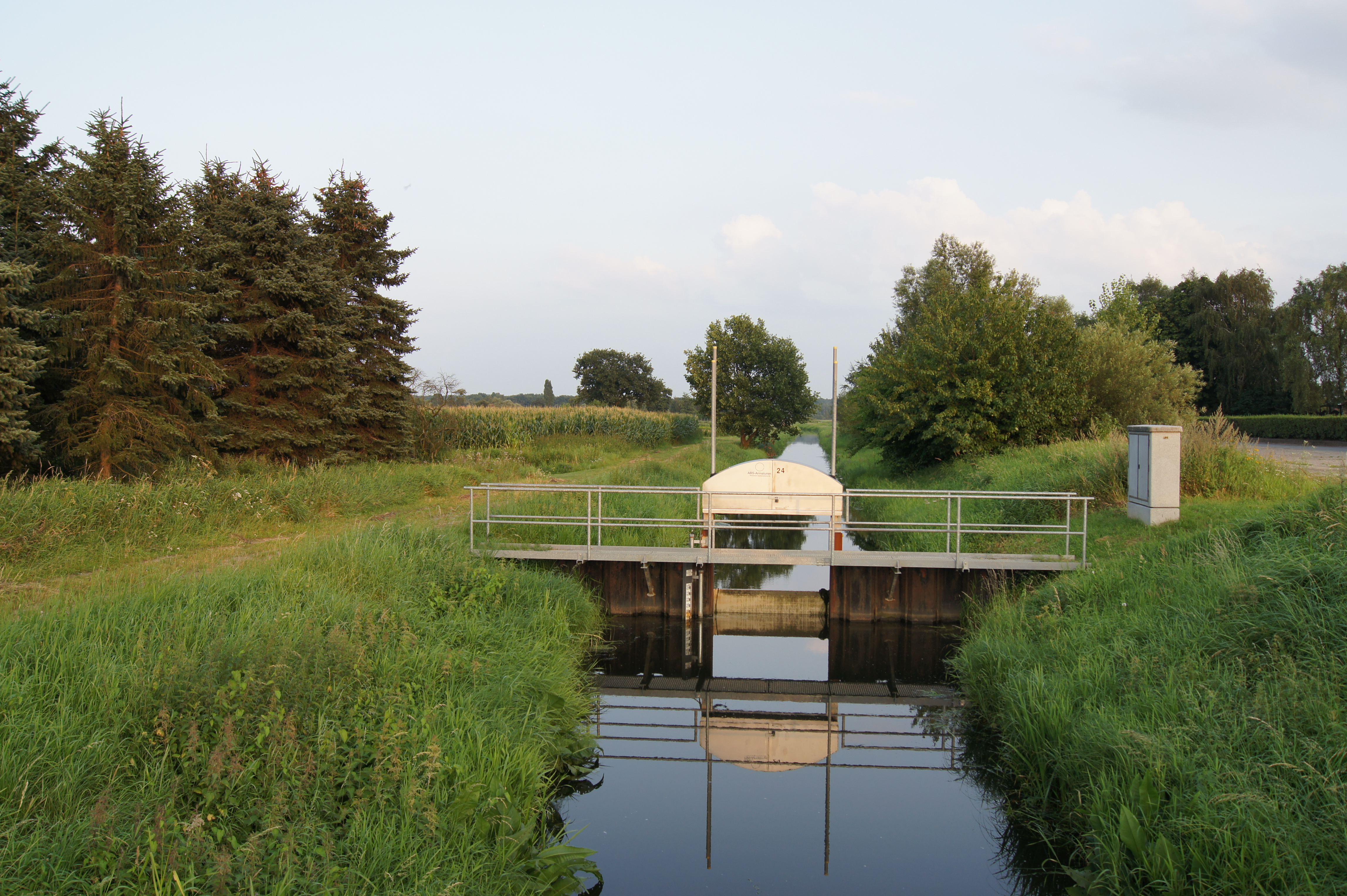 Hamburg (Kirchwerder), Germany: Southern principal drainage canal in eastern direction